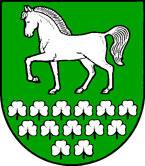 Coat of arms of the Amt Kirchspielslandgemeinde (county) Meldorf-Land in Schleswig-Holstein, Germany.